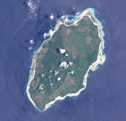 This image (Landsat 7) shows Kuur island, aka Kur island, which is in the north west of the Kei islands (aka Kai islands), Indonesia.